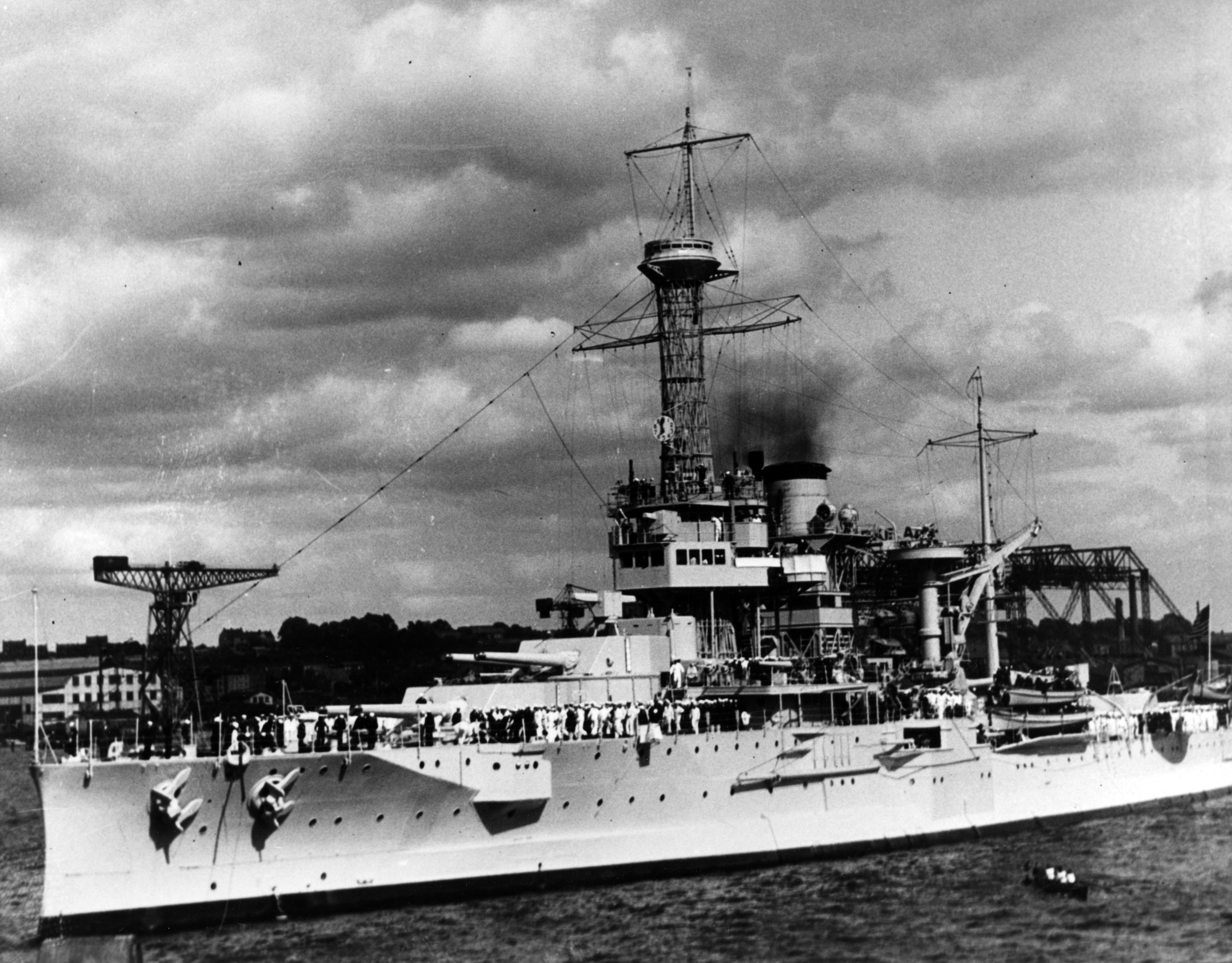 At Kiel, Germany, 7 July 1930, during a Midshipman's training cruise. Official U.S. Navy Photograph, now in the collections of the National Archives.